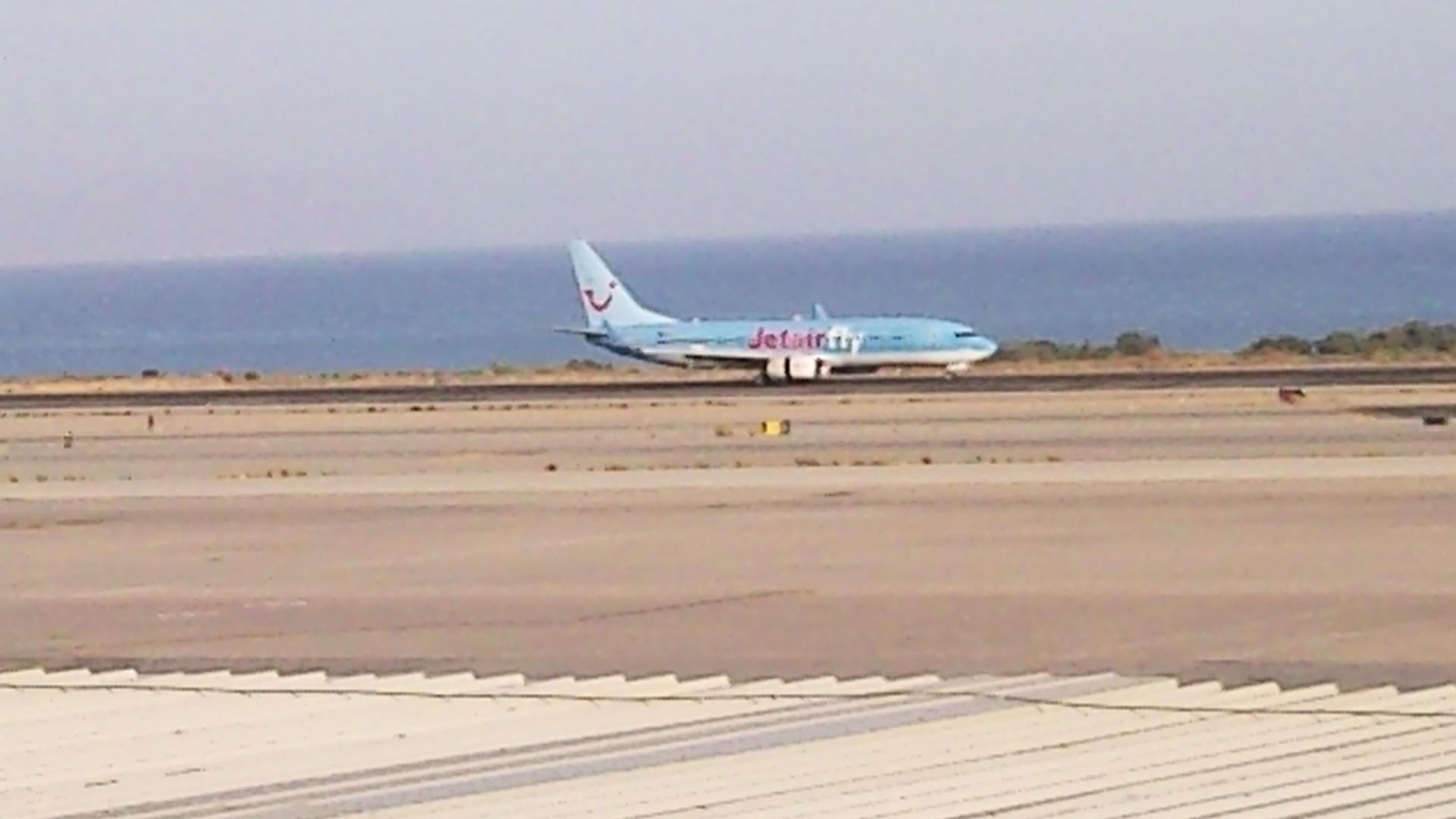 Jetairfly Boeing 737-800 charter aircraft from Brussels landing at Almeria Airport (Thomas Cook flightnumber)